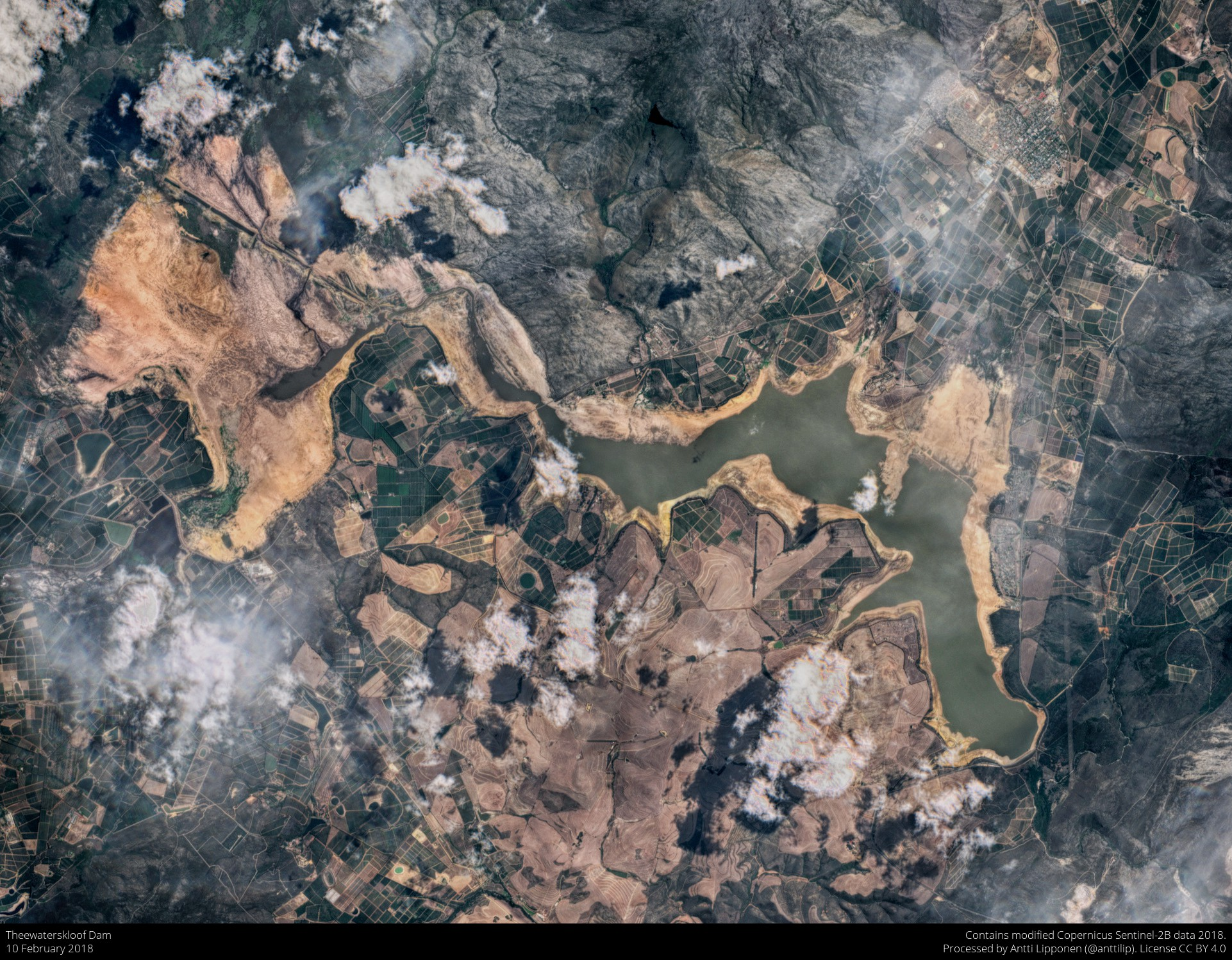 Theewaterskloof Dam near Cape Town in South Africa 10 February 2018. Seen by Sentinel-2B satellite.